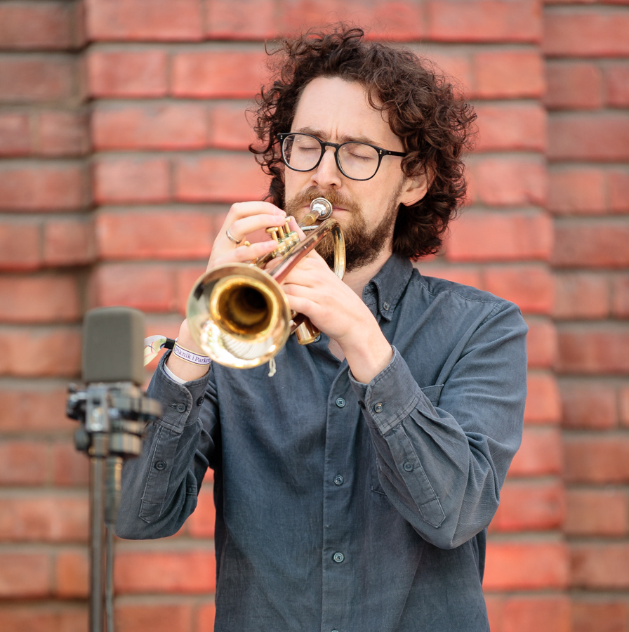 Hayden Powell Trio at the Borggården stage in the Vigeland Park. The concert was part of Piknik i Parken and took place on 17. June 2018 in Oslo. Lineup:Hayden Powell (trumpet)Eyolf Dale (piano)Jo Skaansar (double bass)